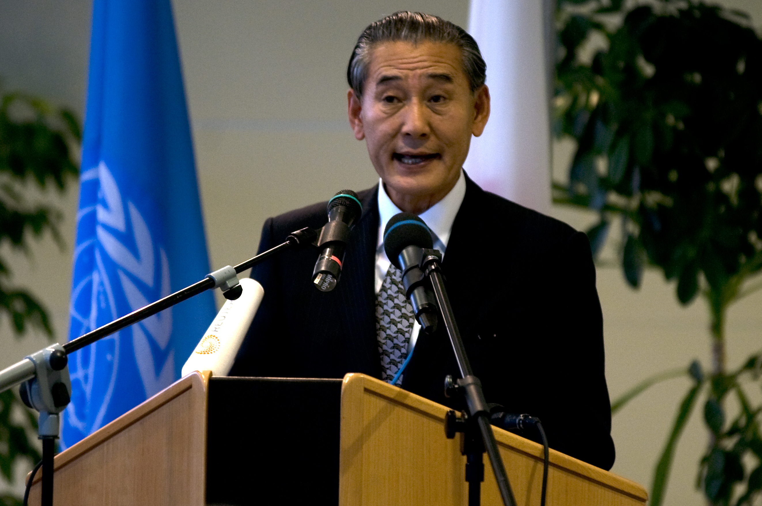 Toshirō Ozawa, Ambassador to the International Organizations in Vienna, attended the Commemoration Ceremony on the occasion of the First Anniversary of the Great East Japan Earthquake and the Opening of a Photo Exhibition "Tohoku Region; Rebuilding for a Better Tomorrow" at the Vienna International Centre in Vienna City, Vienna State on March 12, 2012.